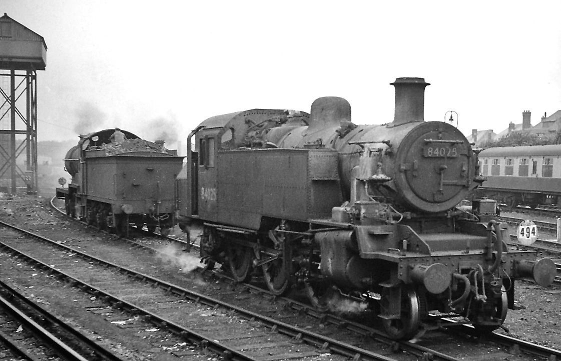 BR Standard 2-6-2T at Margate. View westward, towards Faversham, Chatham and London: ex-SE&C London - Chatham - Ramsgate etc. main line. Beside Margate station in steam days there was a small Locomotive Servicing Point. Here BR Standard 2MT 2-6-2T No. 84025 (built 11/57, withdrawn 12/65) is accompanied by ex-SE&C Maunsell D1 class 4-4-0 No. 31247 (built by Wrainwright in 4/1903 as class D, rebuilt 4/21 as a D1, withdrawn 7/61). At bottom left there seems to be some third-rail track, ready for electric services to Ramsgate, although they did not commence beyond Gillingham until 15/6/59.